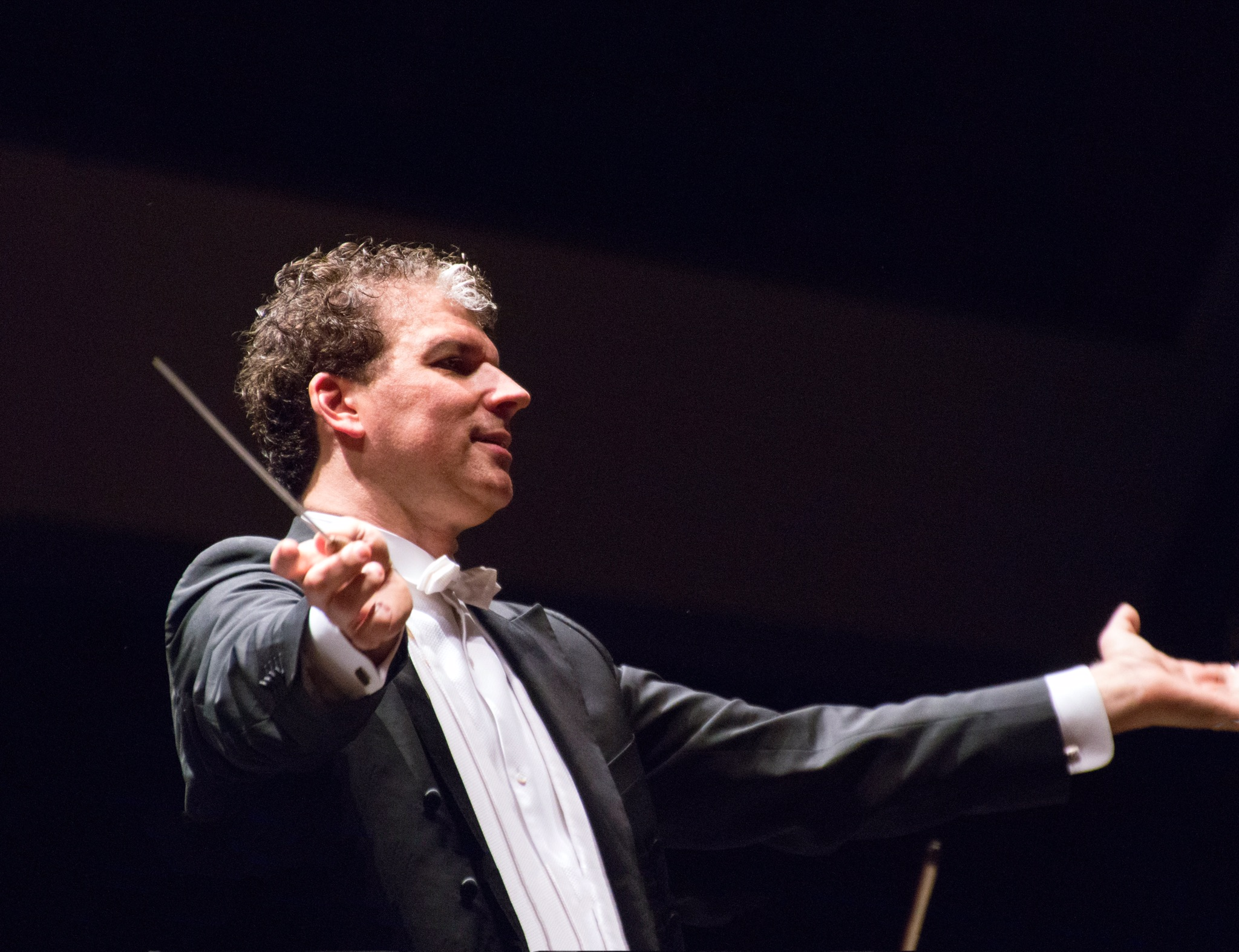 Picture of Austrian Conductor Matthias Fletzberger, tanken in Toronto 2017